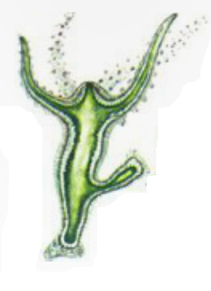 Hidra